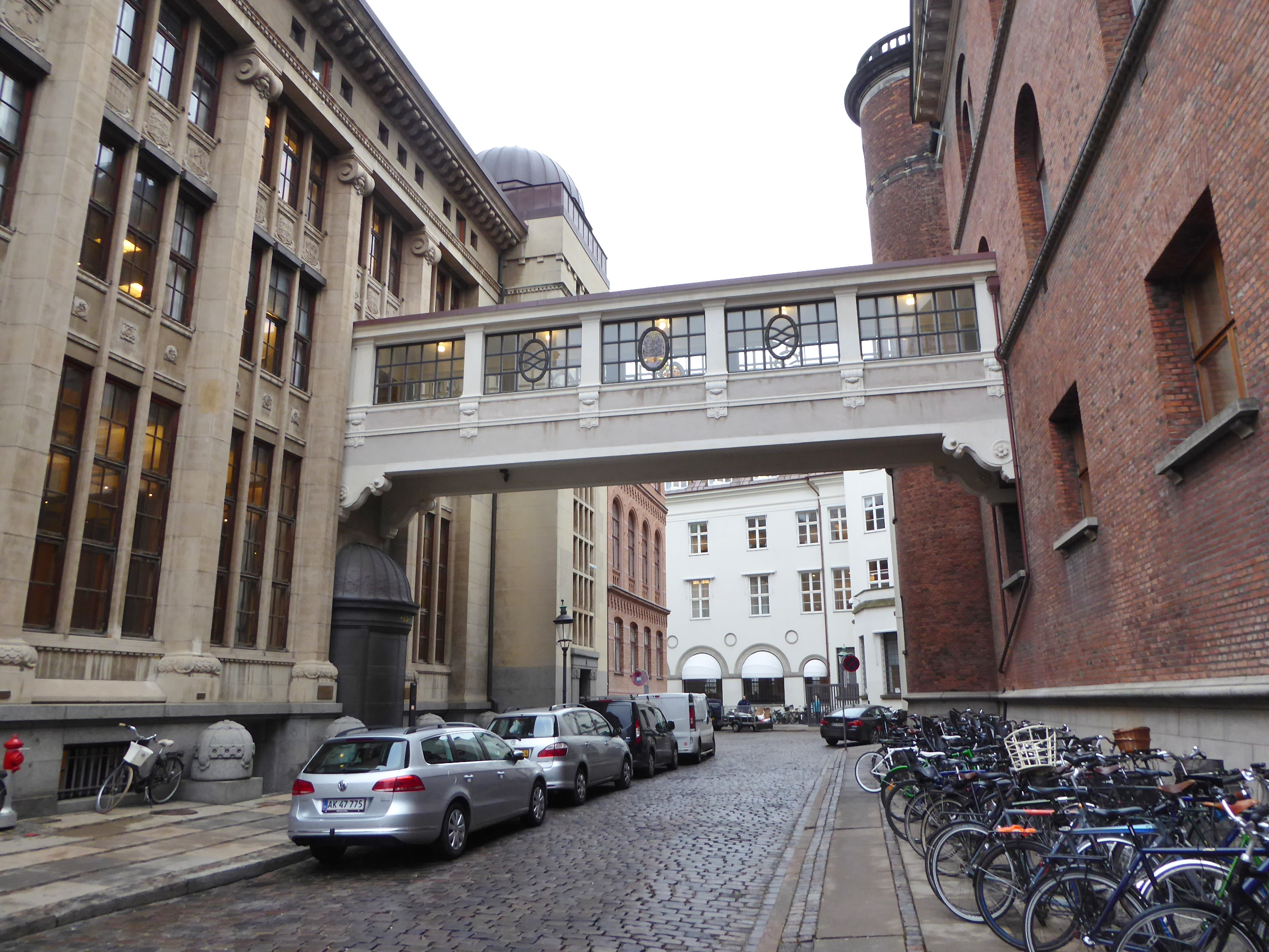 Skyway above the street Laksegade in Indre By in Copenhagen.